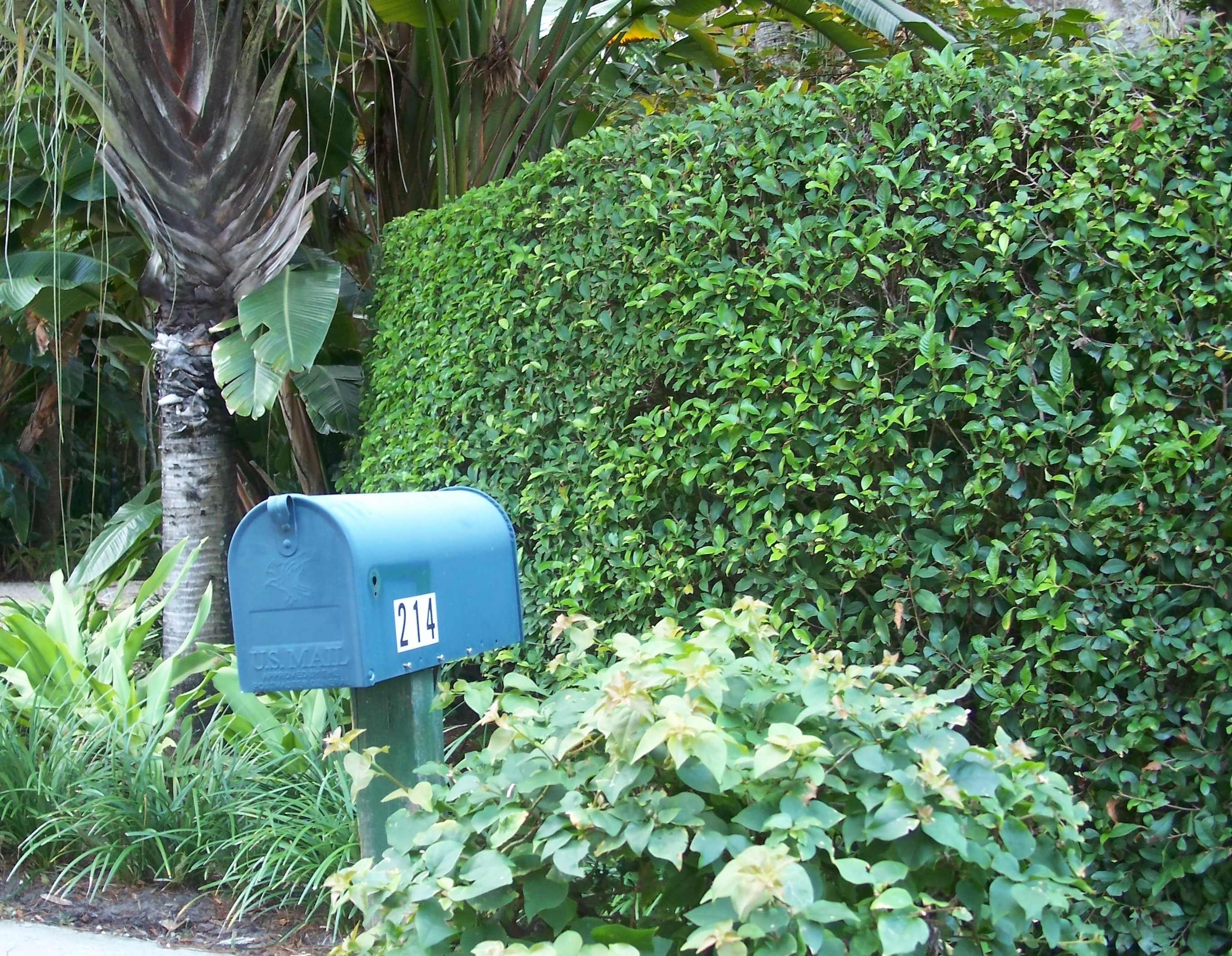 Jupiter Island, Florida: Gate House: Mailbox and hedge